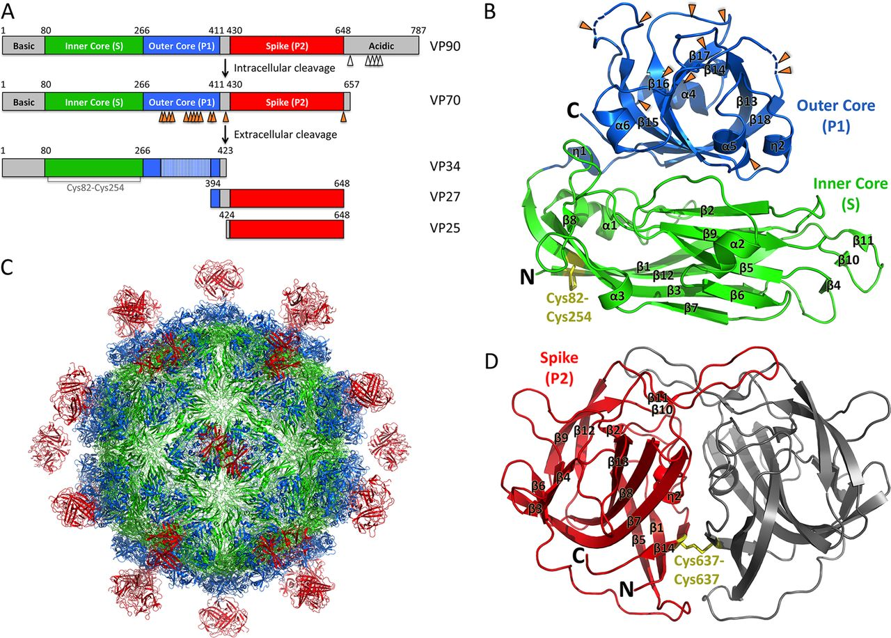 Schematics and crystal structures of HAstV-1 CP core and spike. (A) Schematics of the HAstV-1 CP domain structure and proteolytic processing events. Caspase and trypsin cleavage sites are indicated with white and orange arrows, respectively. (B and D) Crystal structures of the HAstV-1 CP core (B) and spike (D). Trypsin cleavage sites are indicated with orange arrows. Disulfide bonds are labeled and colored yellow. N and C termini are labeled. (C) Model of mature T=3 HAstV-1 virion. Figures were made with PyMOL.